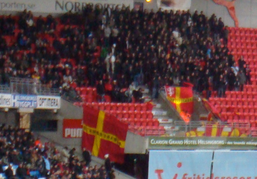 Cropped version of File:Kärnan-supporters.JPG